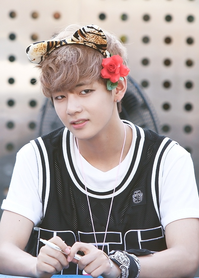 Kim Tae-hyung at a fanmeet in Cheongnyangni on July 6, 2013.